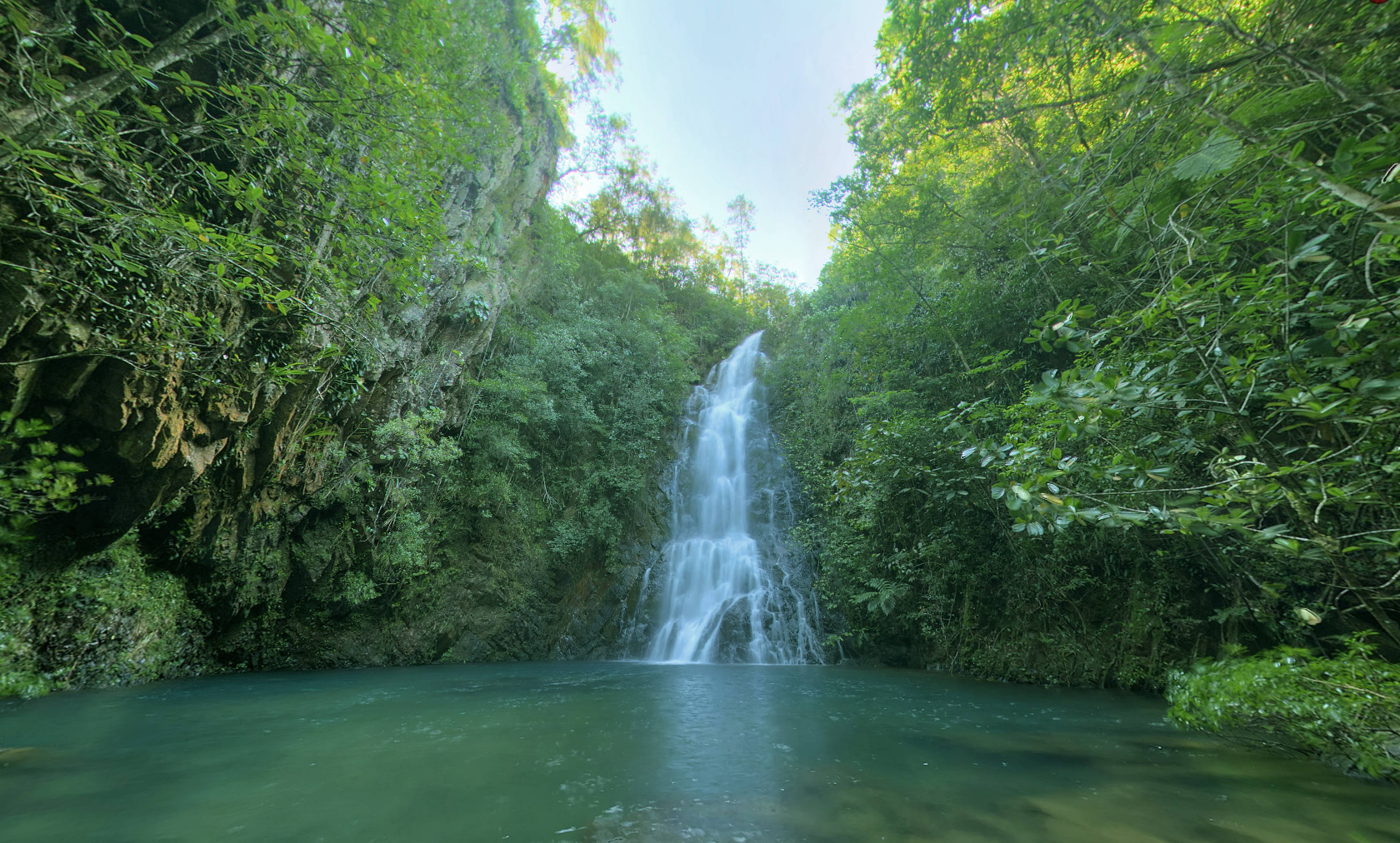 The Upper Falls — in the Cockscomb Basin Wildlife Sanctuary, the Stann Creek District, southeastern Belize.